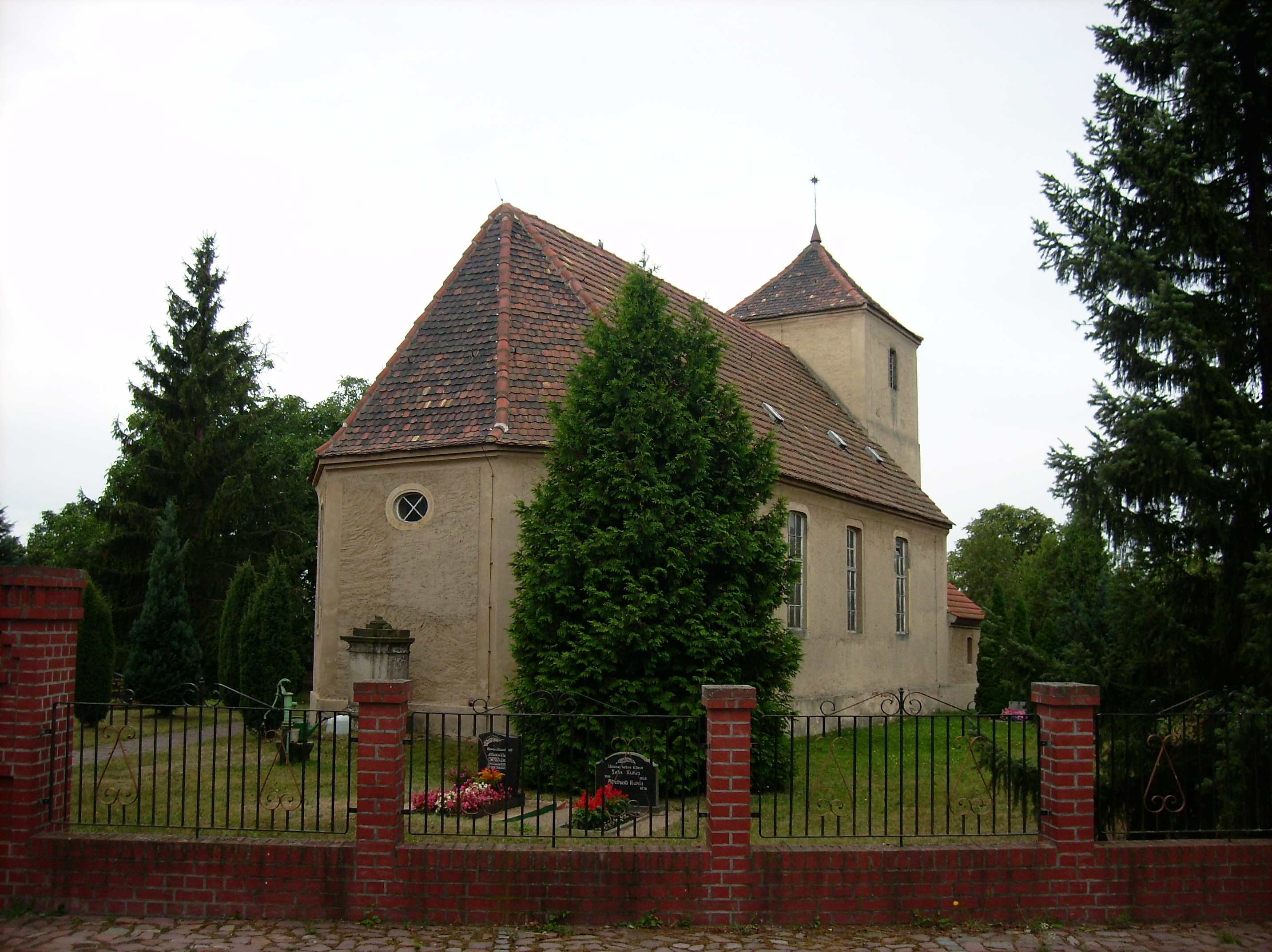 Church of the village of Altbelgern (Mühlberg/Elbe, Elbe-Elster district, Brandenburg)